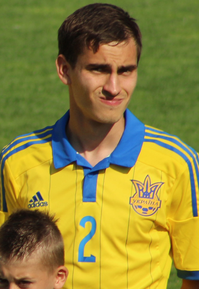 Oleksandr Mihunov